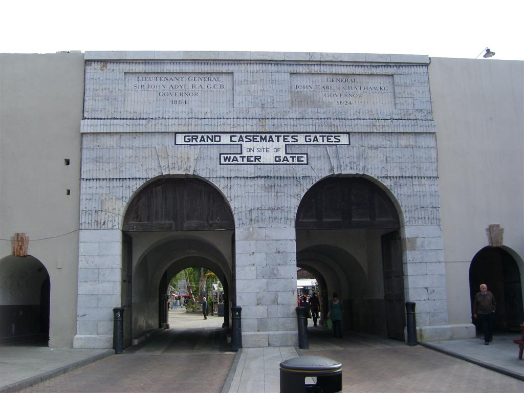 Grand Casemates Gates, main entrance to Grand Casemates Square, Gibraltar.